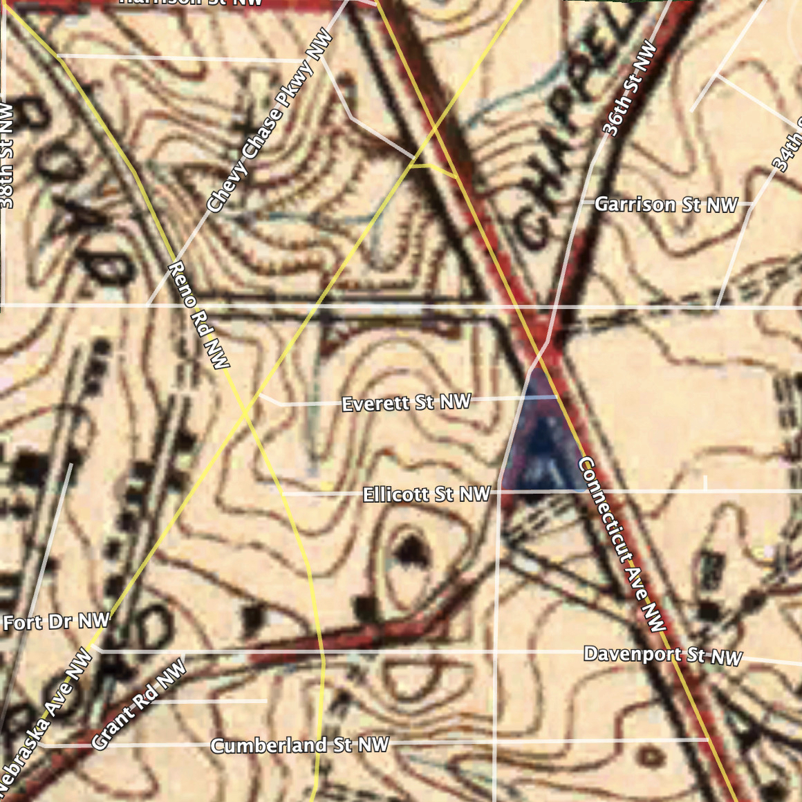 A 1917 (1926 reprint) U.S. Geological Survey map (surveyed 1913-1915), of the current site of Muhlenberg Park in Washington, D.C. (highlighted), overlaid with modern street names.